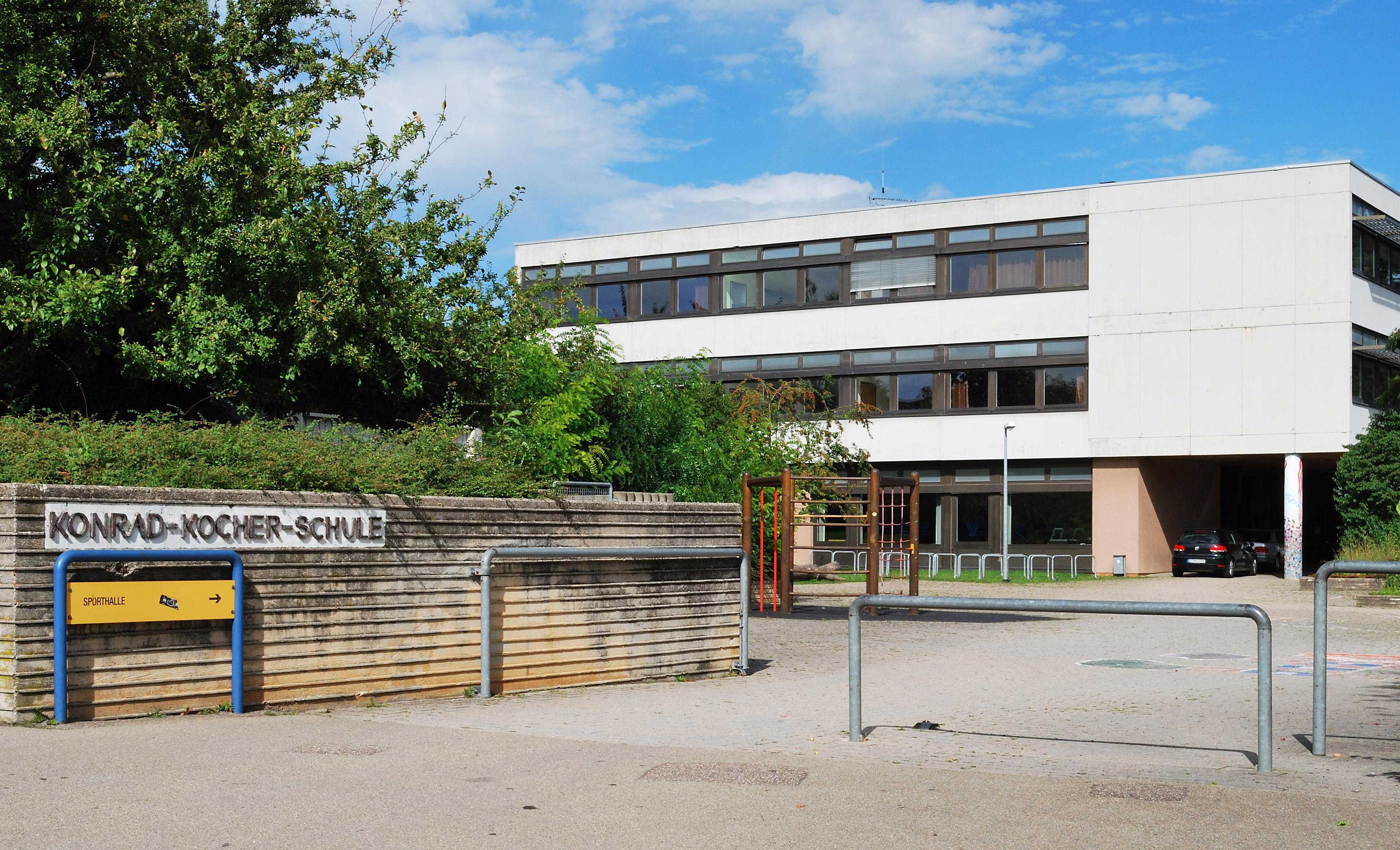 Konrad-Kocher School in Ditzingen (Baden-Württemberg, Germany).